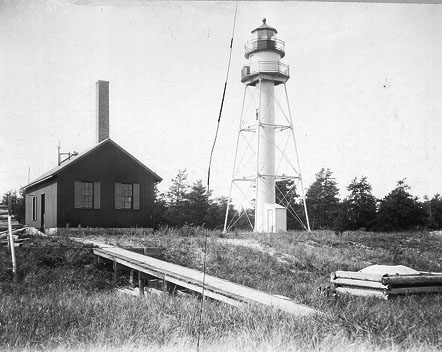 Public Domain statement here; The La Pointe Light is a lighthouse located on Long Island, one of the Apostle Islands, in Lake Superior in Ashland County, Wisconsin, near the city of Bayfield.